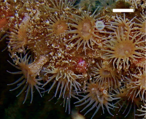 Close-up view of Antipathozoanthus hickmani colony (Zoantharia: Parazoanthidae) on a black coral Antipathes galapagensis (Antipatharia: Antipatidae). Photo taken at the depth of 35 m near Pinzon Island (Galápagos Islands). Scale bar – 1 cm.